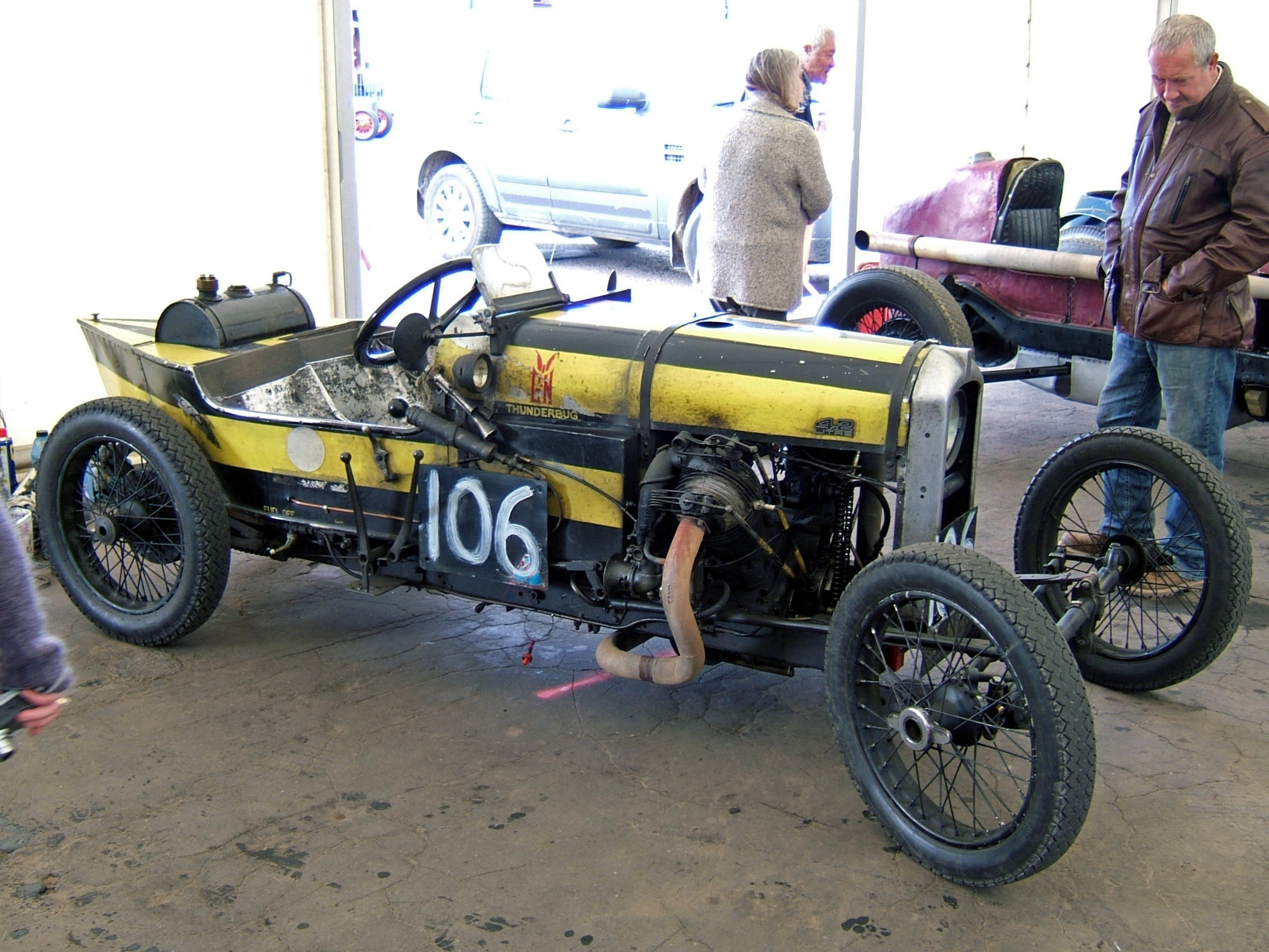 The GN Thunderbug special at the VSCC SeeRed race meeting, Donington Park, September 2007. The Thunderbug has a 4.2 litre V-twin motor shoehorned into its lightweight cyclecar frame.